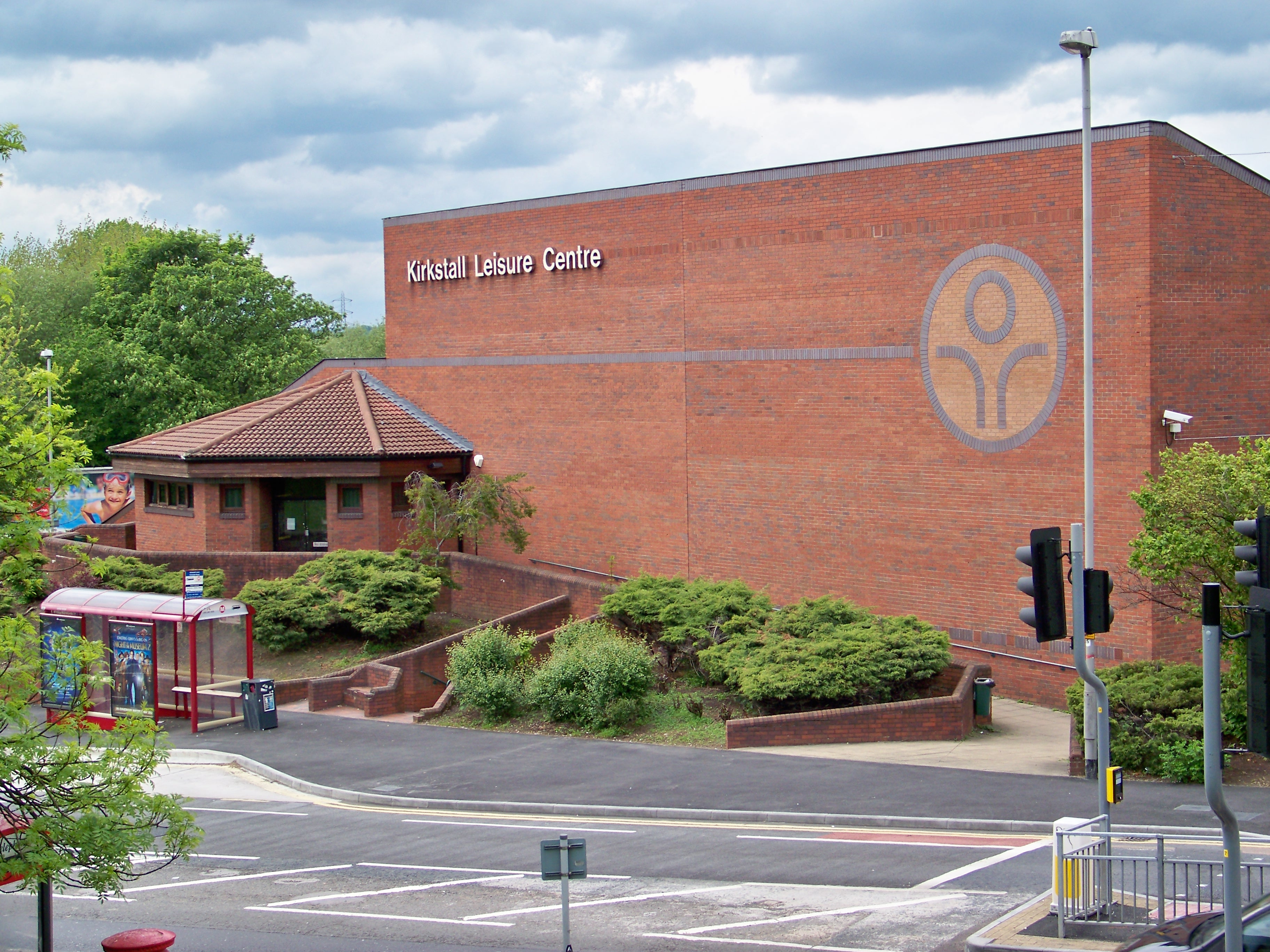 Kirkstall Leisure Centre, taken from across Kirkstall Lane in Kirkstall, Leeds, West Yorkshire, UK. Taken around midday on the 24th May 2009.